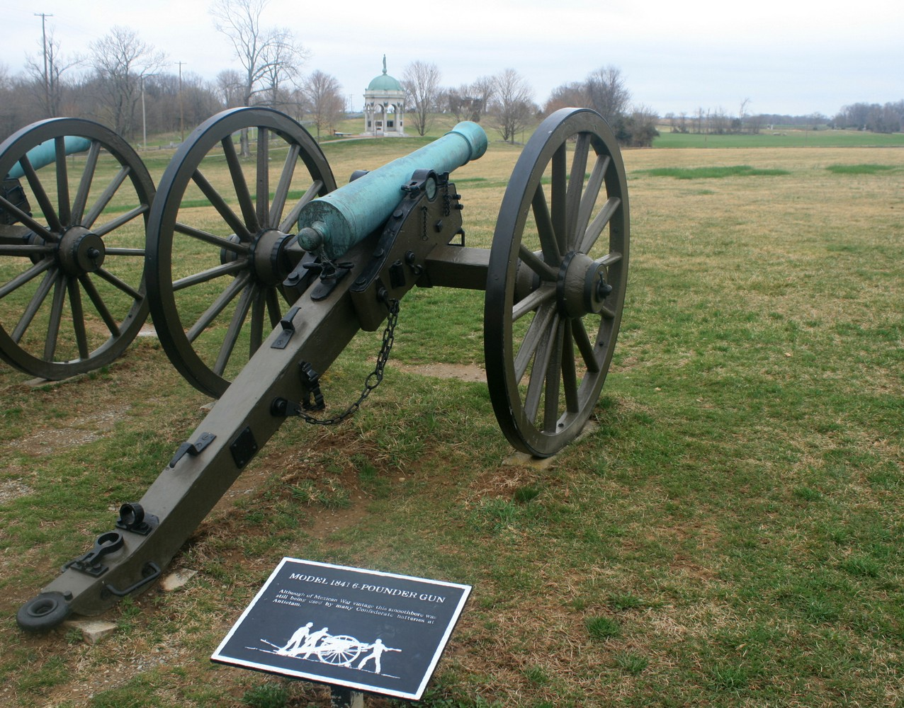 6-pounder gun at Antietam battlefield